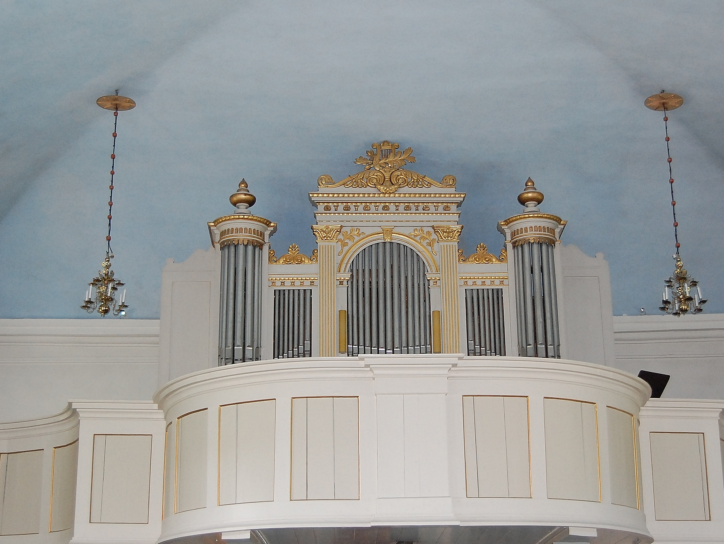 Söderåkra church.Organ.